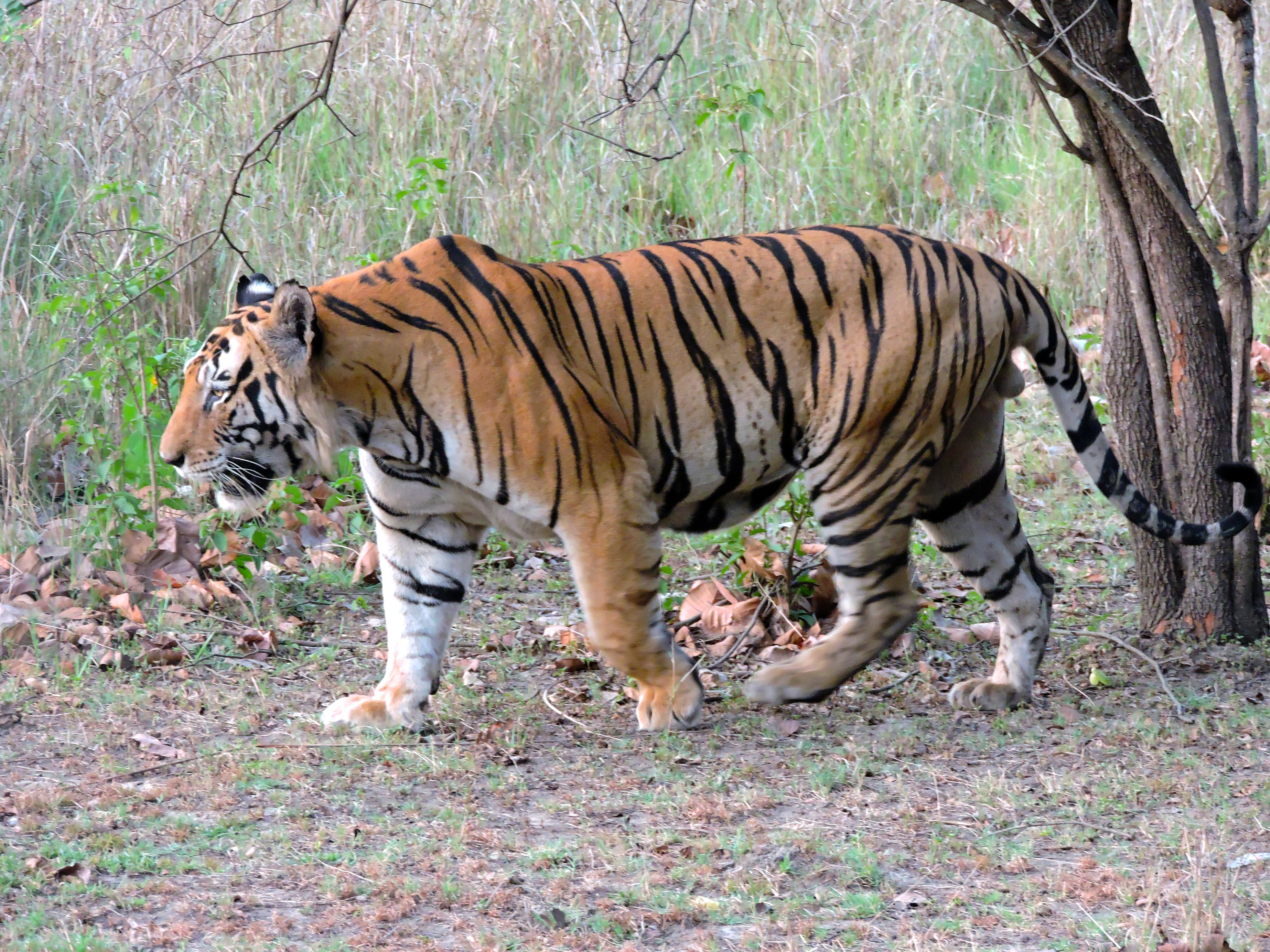 An adult male Royal Bengal tiger in Kanha National Park, Madhya Pradesh, India. Photo taken just before sunset on the 21st of May, 2015.